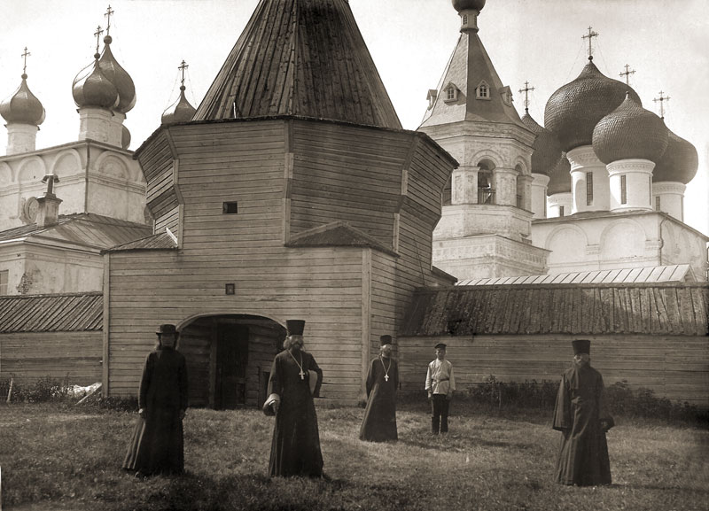 Nikolo-Korelsky Monastery (Severodvinsk (Russia)). 1905-1906.